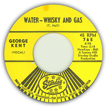 Water - Whiskey and Gas by George Kent, Starday 1966.